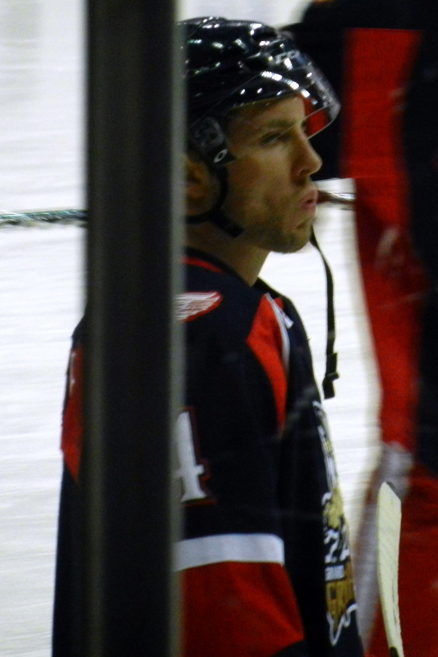 Nathan Paetsch playing for the American Hockey League's Grand Rapids Griffins